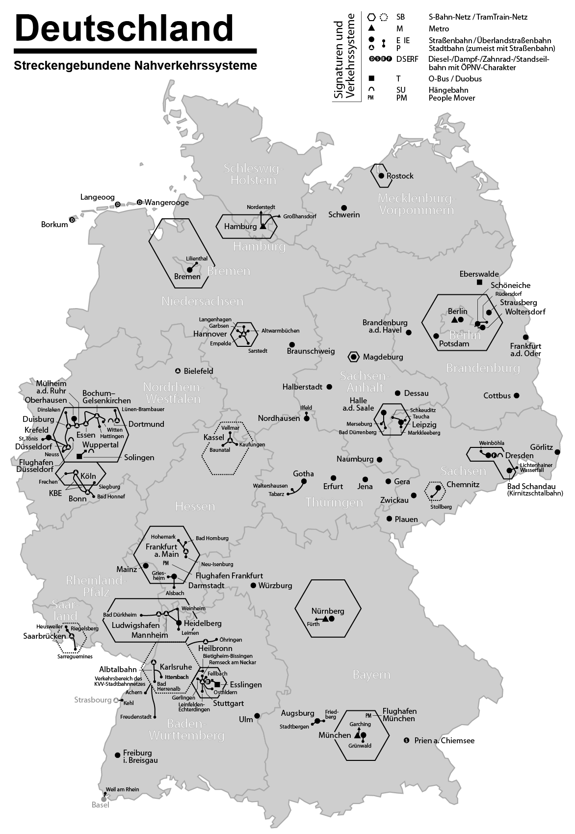 Map of fixed-route public transport systems (suburban railways, Rapid Transit and Light Rail Transit systems, tram, trolleybus) in Germany